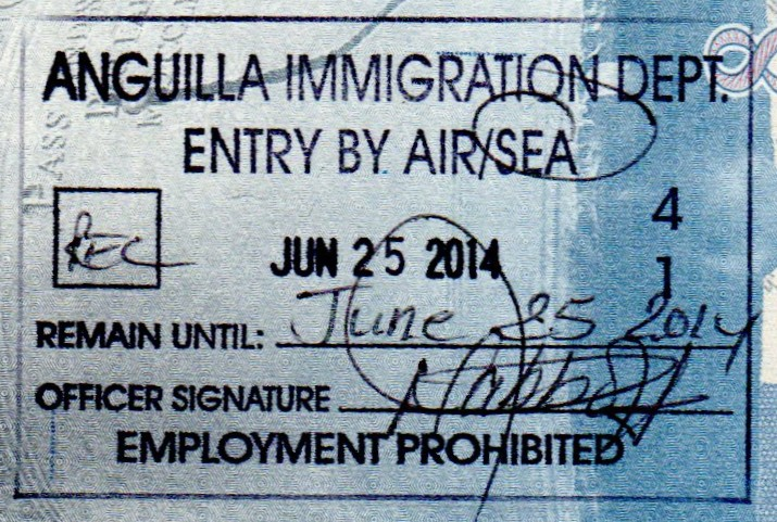 Passport stamp - entry to Anguilla for recreation